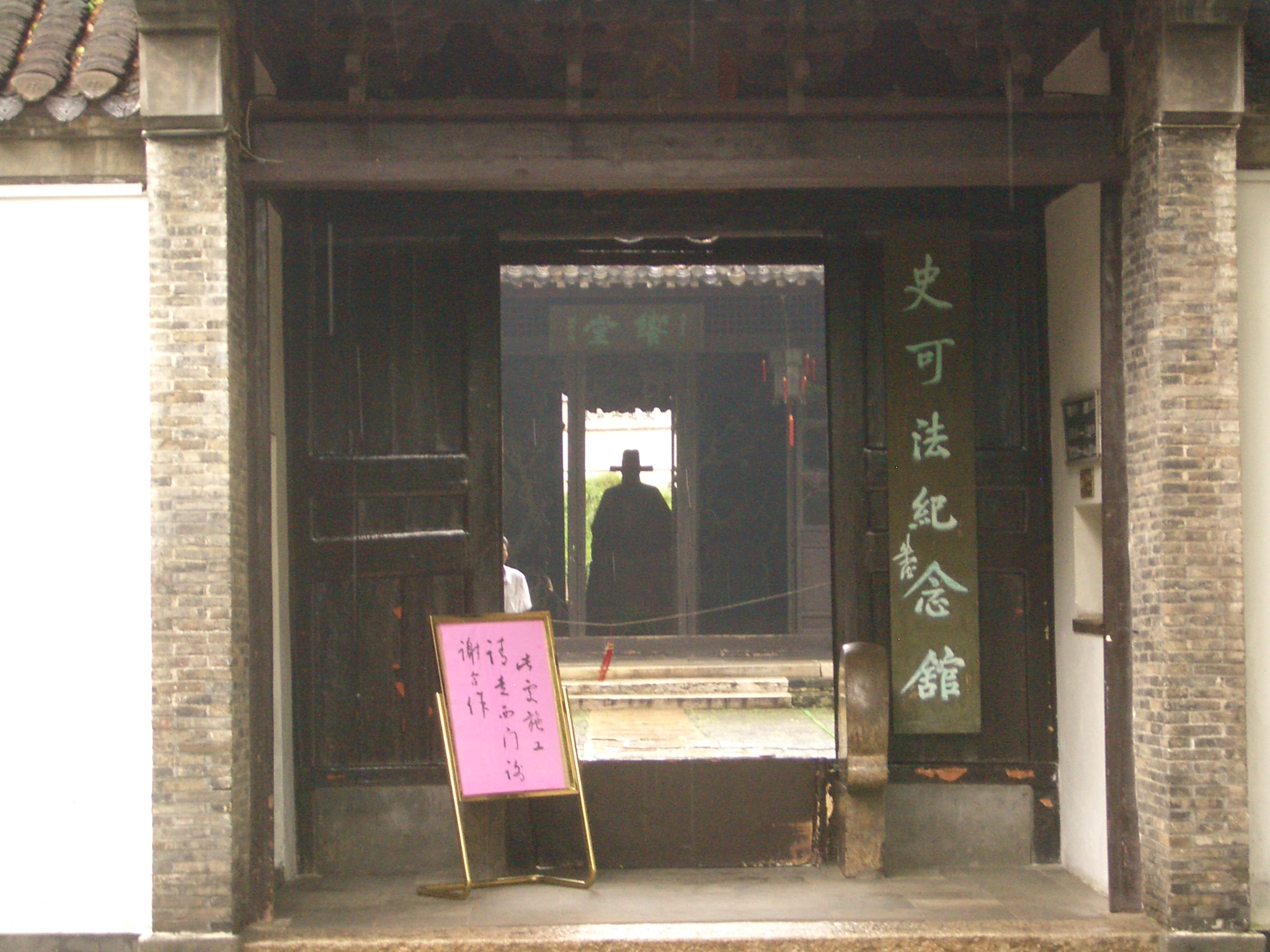 Shi Kefa Memorial in Yangzhou (just north of the canal that probably used to be the city wall moat...)